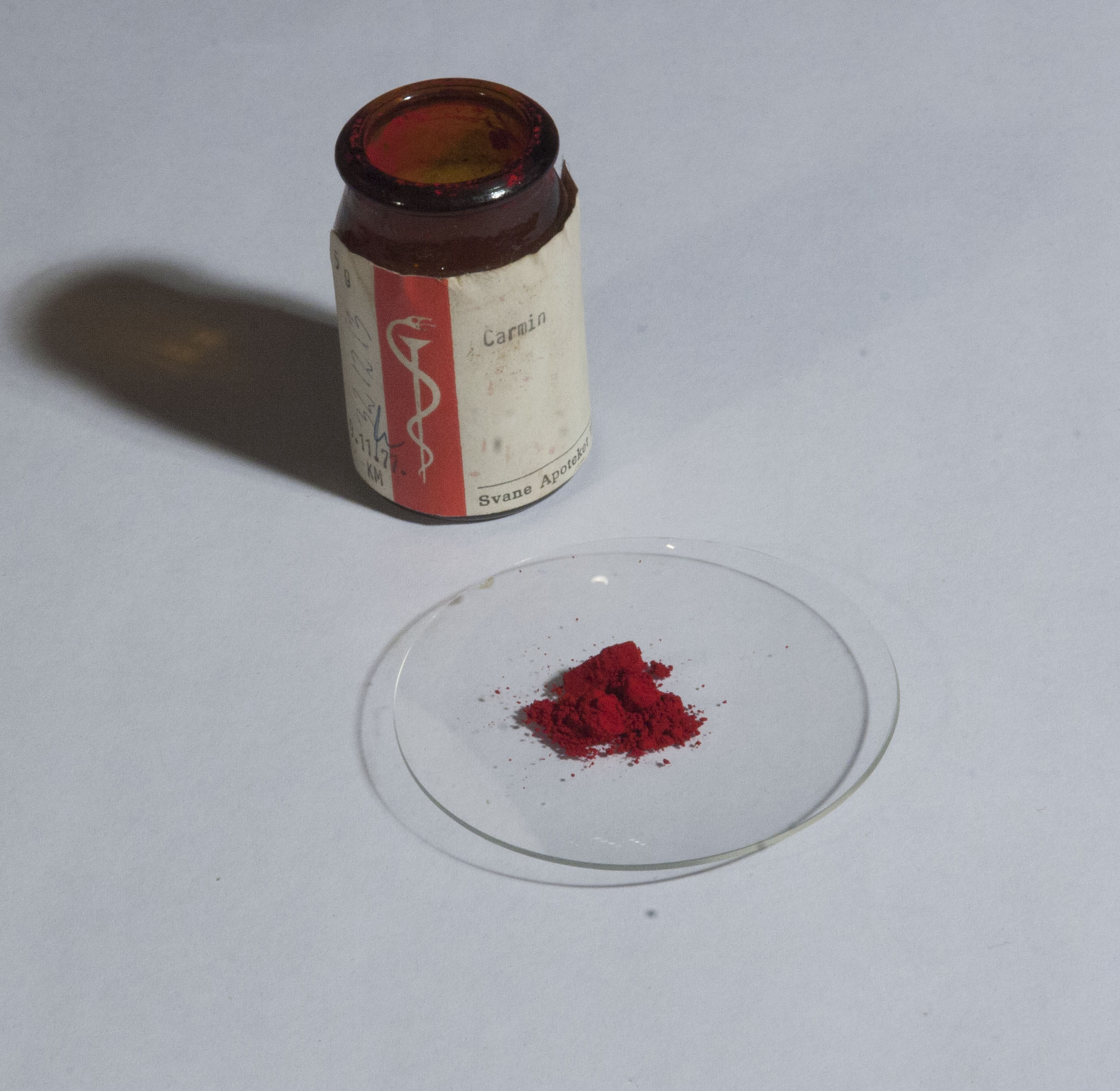 Carmine